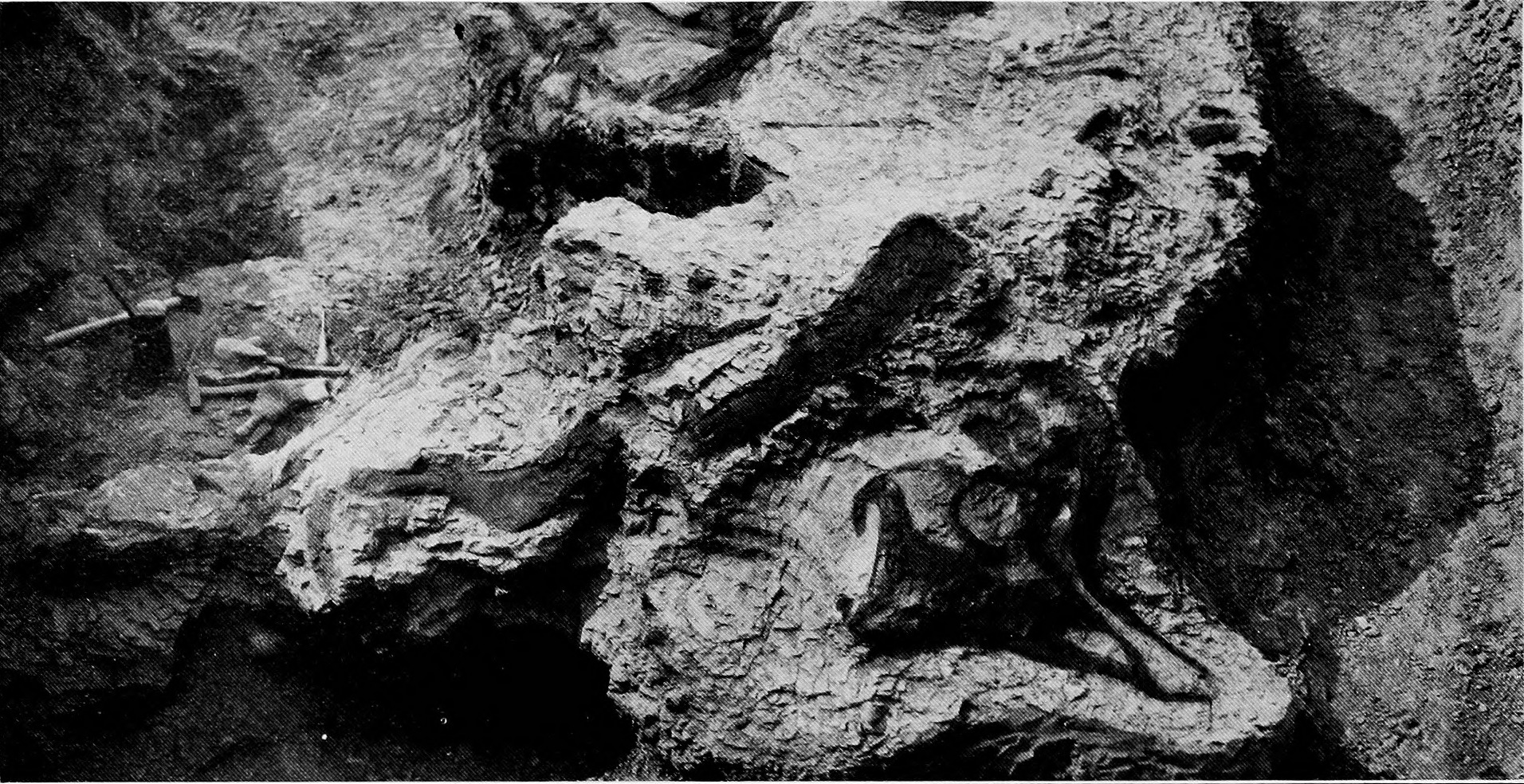 Title: Hunting dinosaurs in the bad lands of the Red Deer River, Alberta, Canada; a sequel to The life of a fossil hunter Year: 1917 (1910s) Authors: Sternberg, Charles H. (Charles Hazelius), b. 1850 Subjects: Paleontology; Dinosaurs Publisher: Lawrence, Kan. , C. H. Sternberg Text Appearing Before Image: ' Text Appearing After Image: '